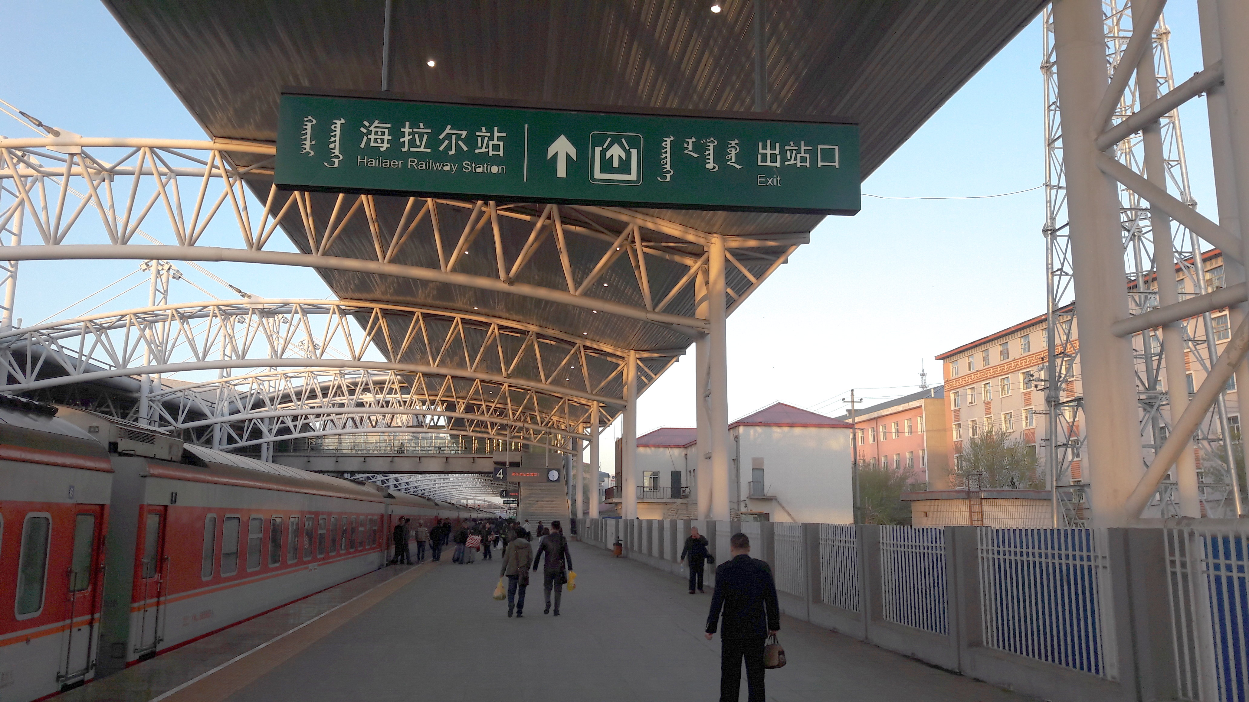 Platform of the Hailar District (ᠬᠠᠶᠢᠯᠠᠷ ᠲᠣᠭᠣᠷᠢᠭ) railway station, in Hulunbur, Inner-Mongolia, China.